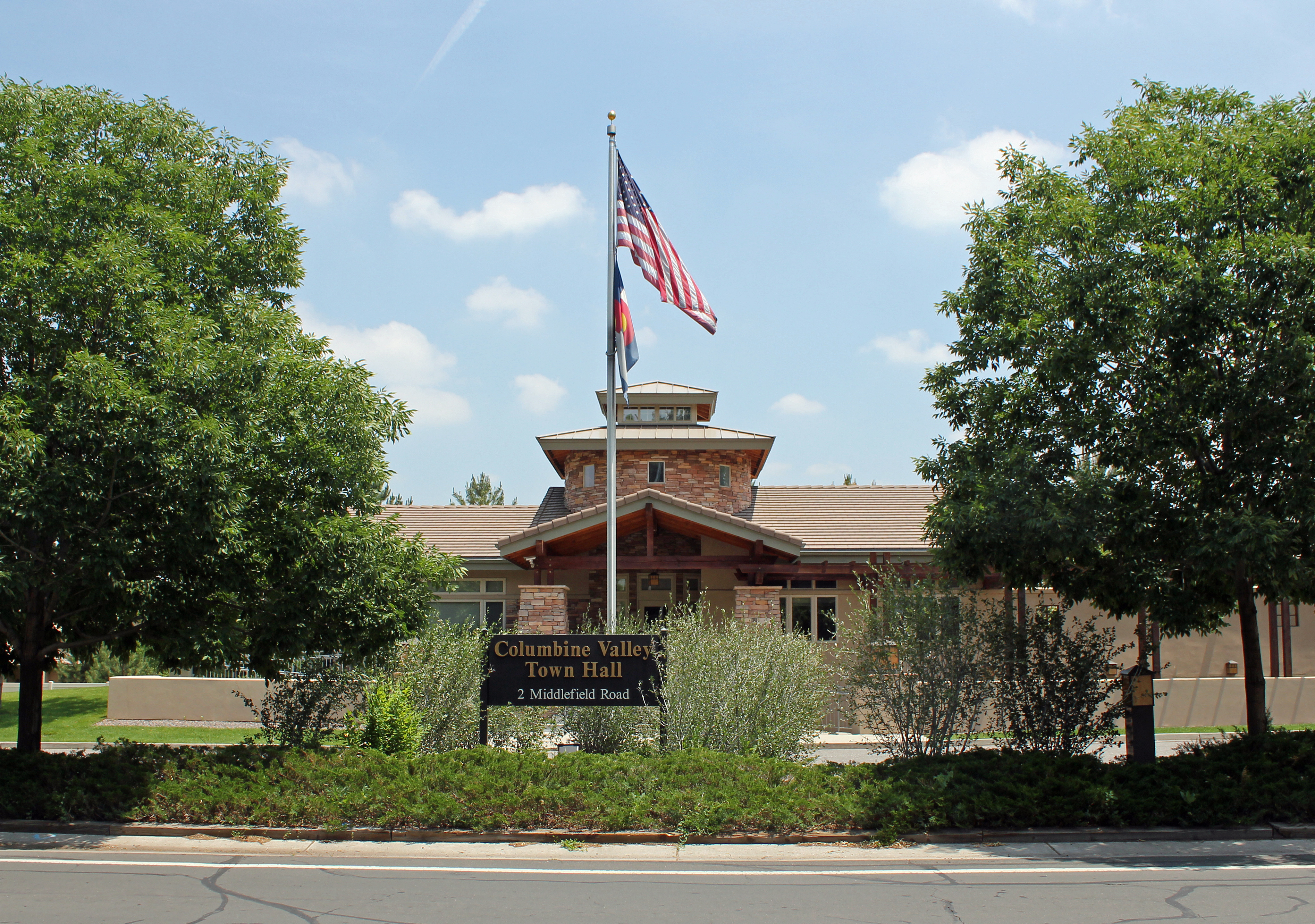 The town hall (city hall) of Columbine Valley, Colorado. It is located at 2 Middlefield Road in Columbine Valley, Colorado.